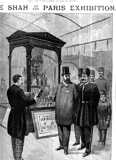 From the October 19, 1889, issue of The Illustrated London News showing Nasseredin Shah Qajar visiting the Paris Expo.